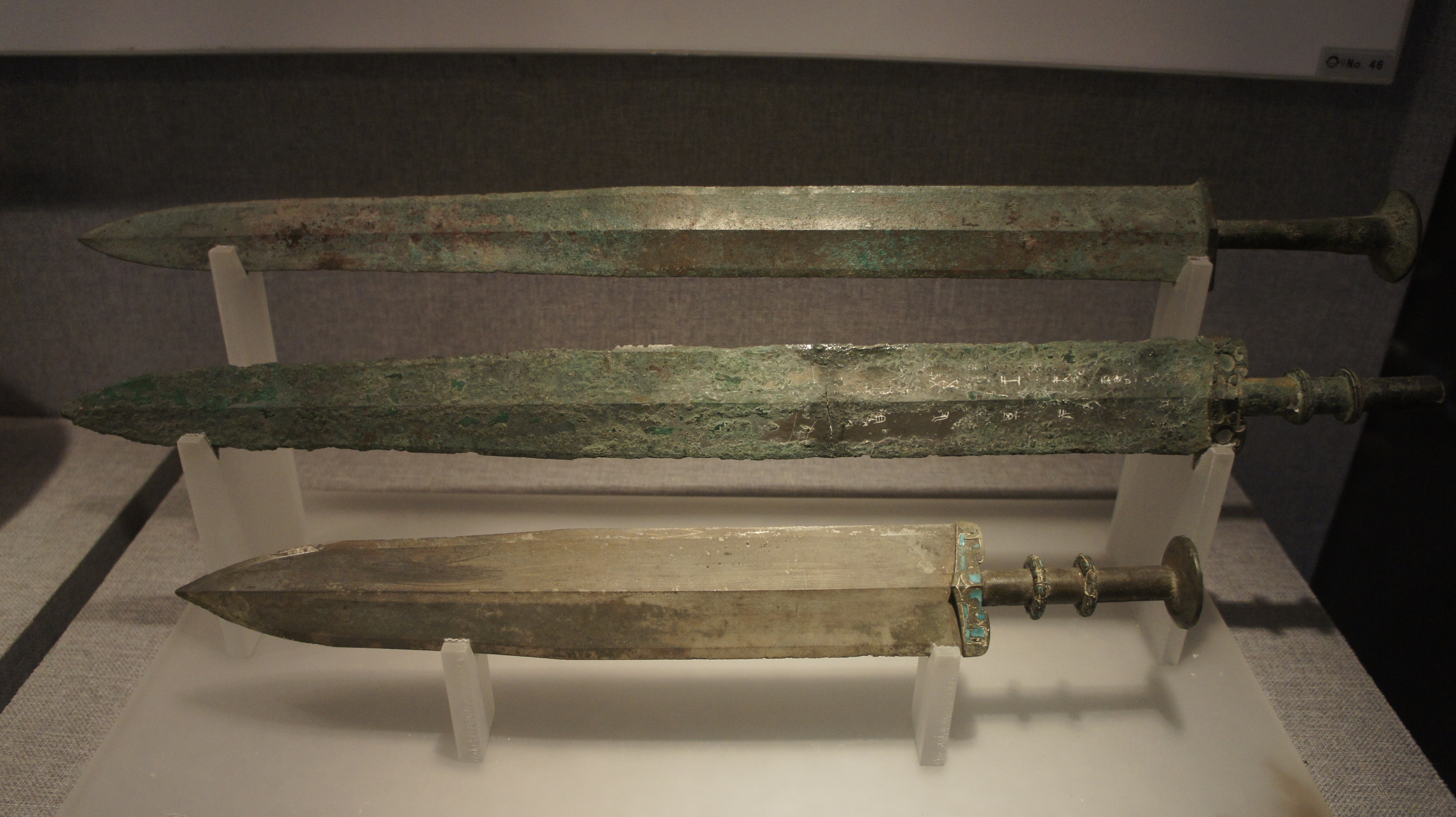 Bronze swords of Wu and Yue States from the Warring States (403 BC-221 BC).